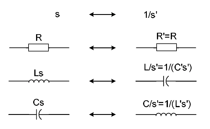 Relation at the low pass to high pass filter transformation